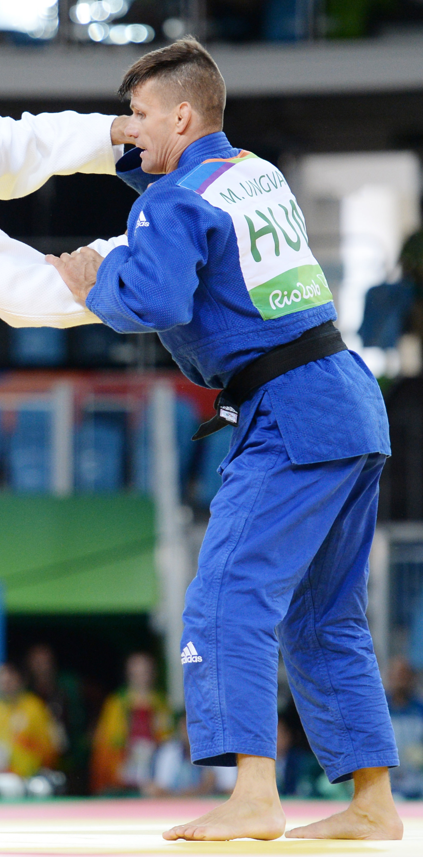 Judo at the 2016 Summer Olympics, Orujov vs Ungvari